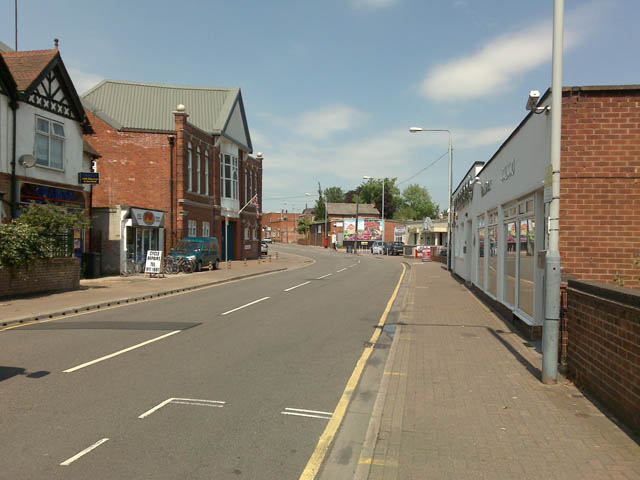 Station Road, Beeston The large building on the left by the bend is the Beeston New Conservative Club. The building on the right is an Italian Restaurant.